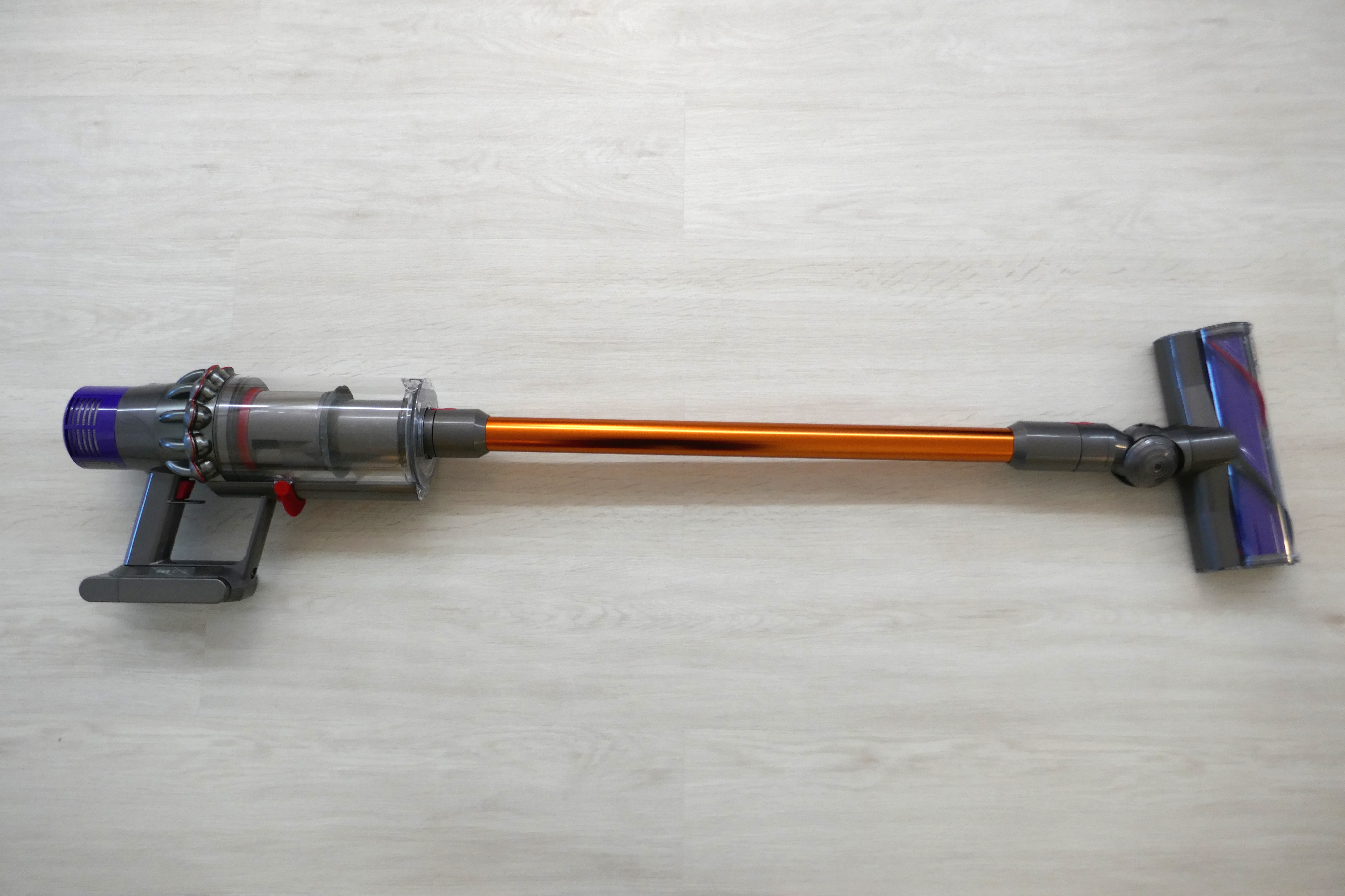 Dyson Cyclone V10 Absolute cordless stick vacuum